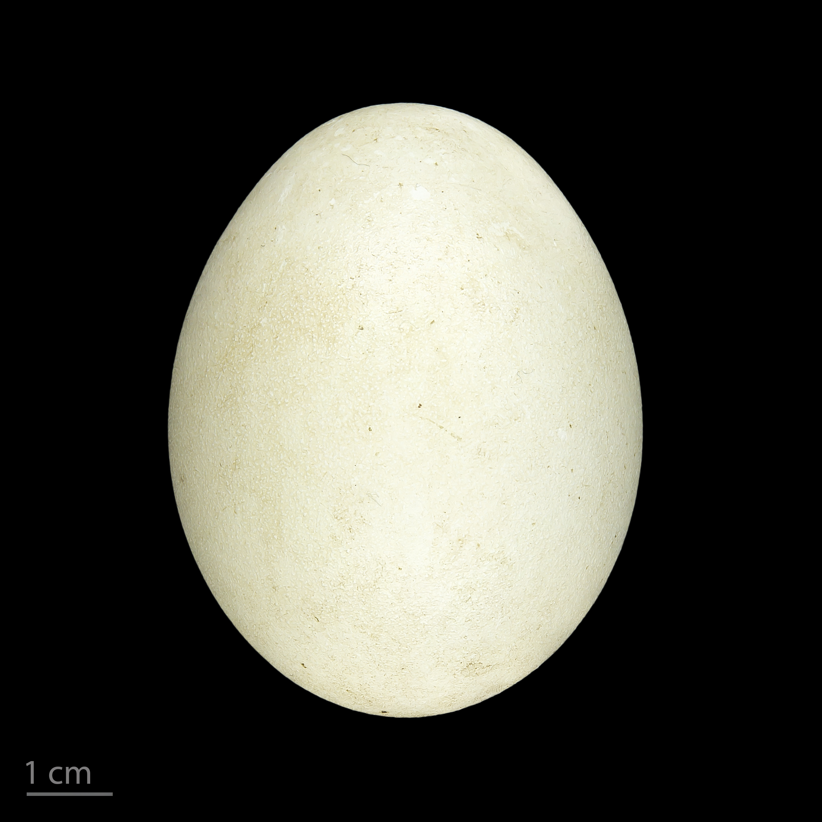 Egg of white-headed duck Collection of Jacques Perrin de Brichambaut.